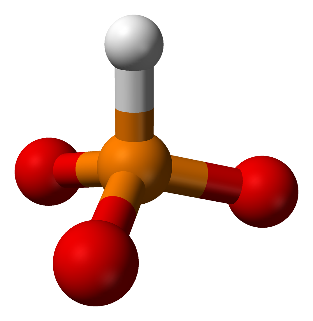 Ball-and-stick model of the phosphite ion, HPO32−. X-ray crystallographic data from L. E. Gordon, W. T. A. Harrison (February 2003). "Bis(melaminium) hydrogen phosphite tetrahydrate". Acta Cryst. 59 (2): o195-o197.